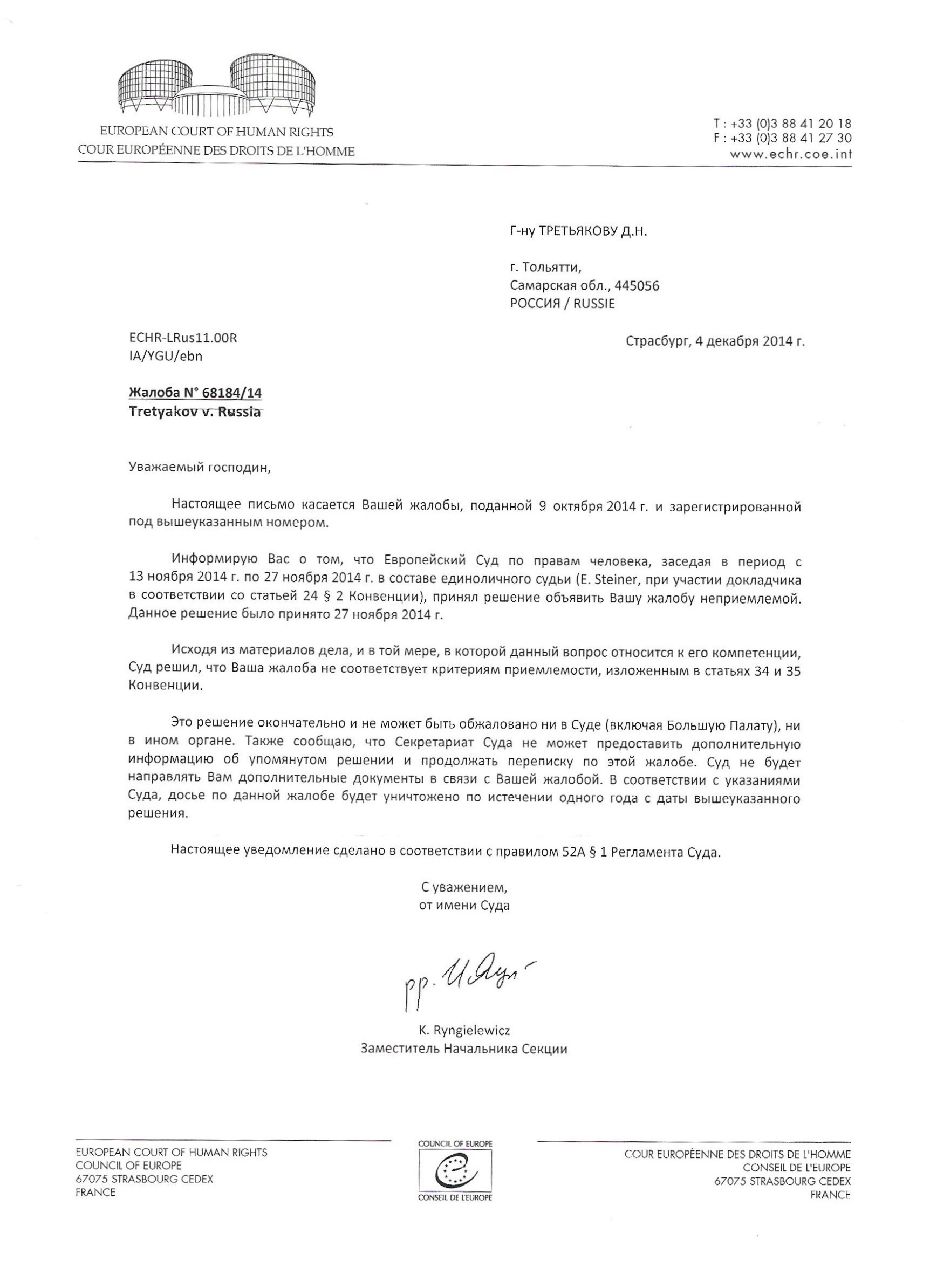 The decision of the European Court of human rights No. 68184/14 on the complaint D. Tretyakov, Russia on the unconstitutional dissolution of the Soviet Union